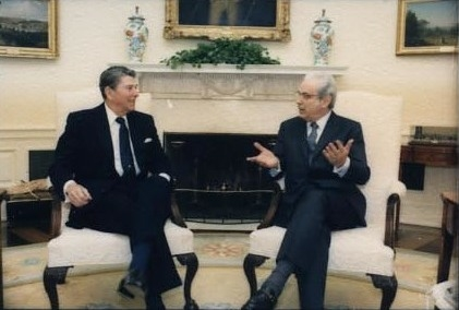 President Ronald Reagan meeting with Secretary General of the United Nations Javier Perez de Cuellar in March 1986 (cropped from Slide 25 of File:Reagan Contact Sheet C33978.jpg).